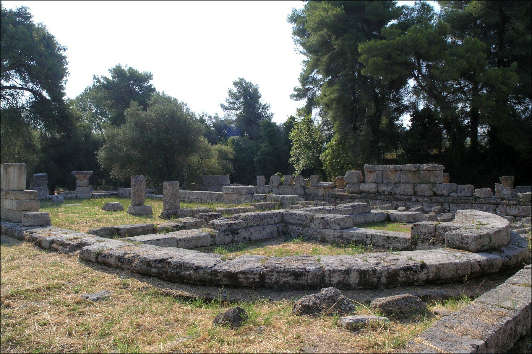 Olympia, Greek